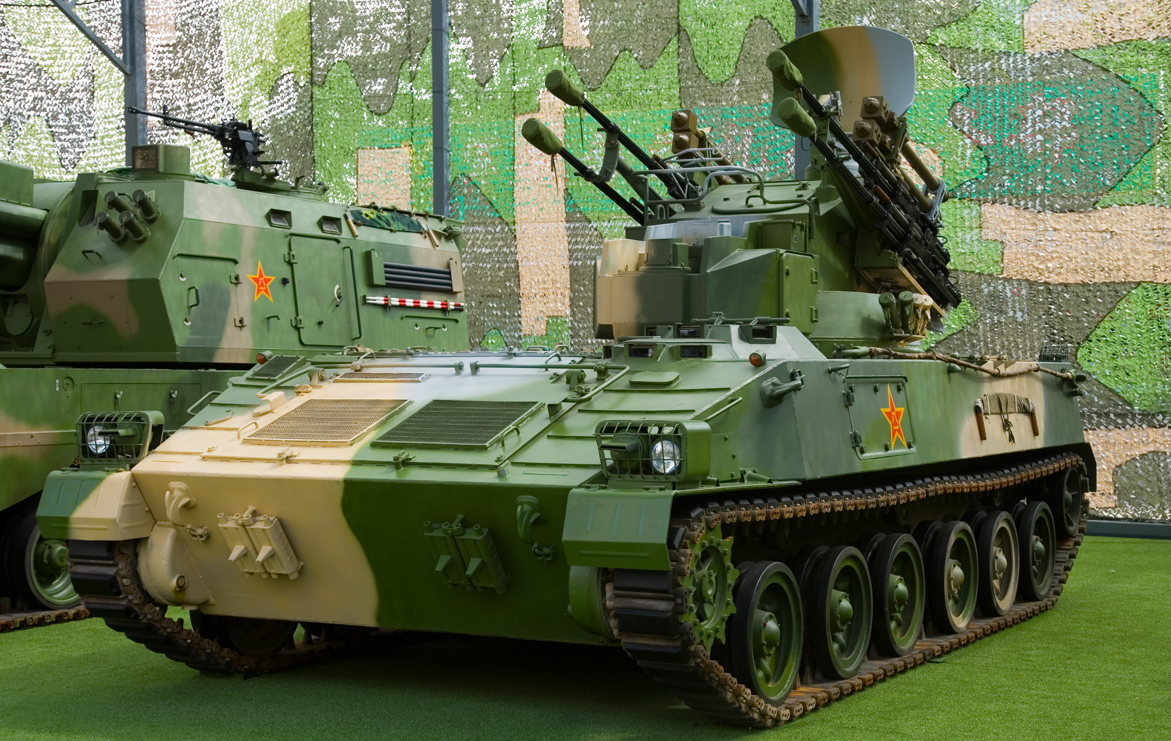 A Chinese Type 95 SPAAG vehicle on display at the "Our troops towards the sky" exhibition at the Beijing Military Museum.